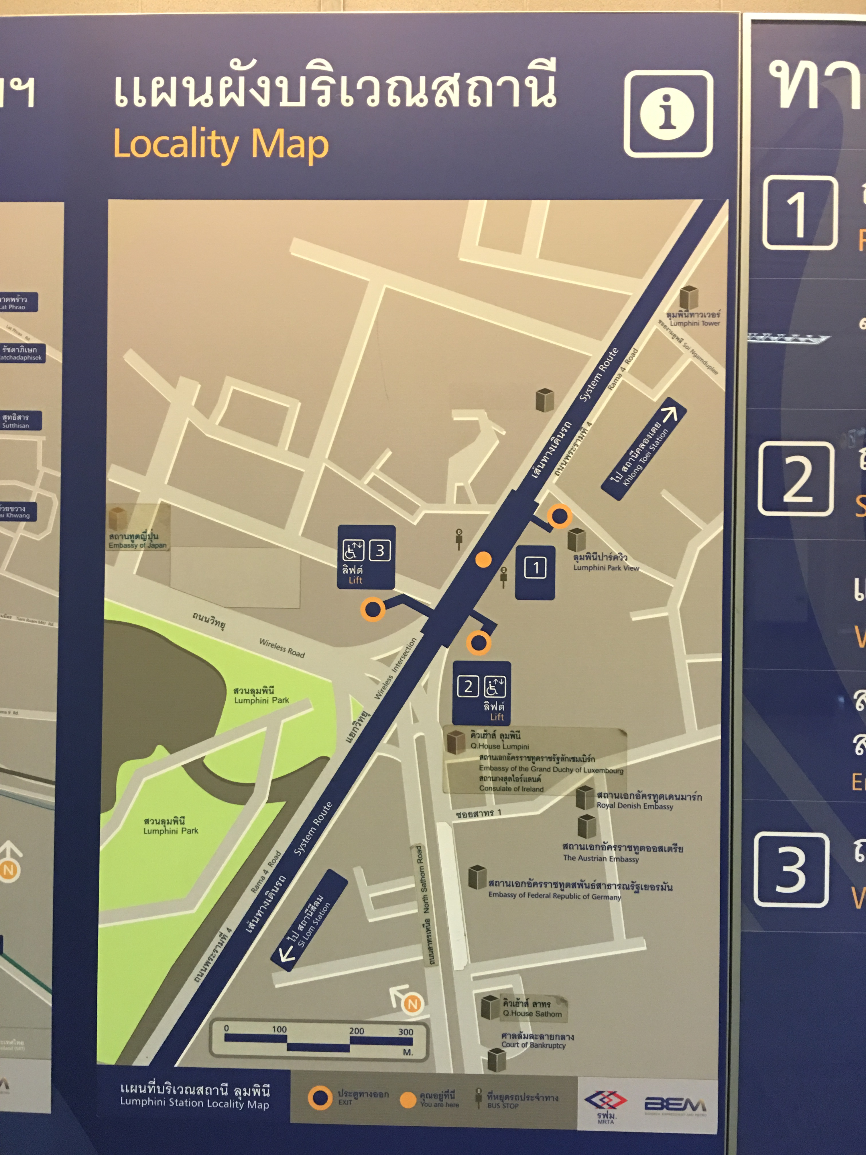 The locality map of Lumphini Station